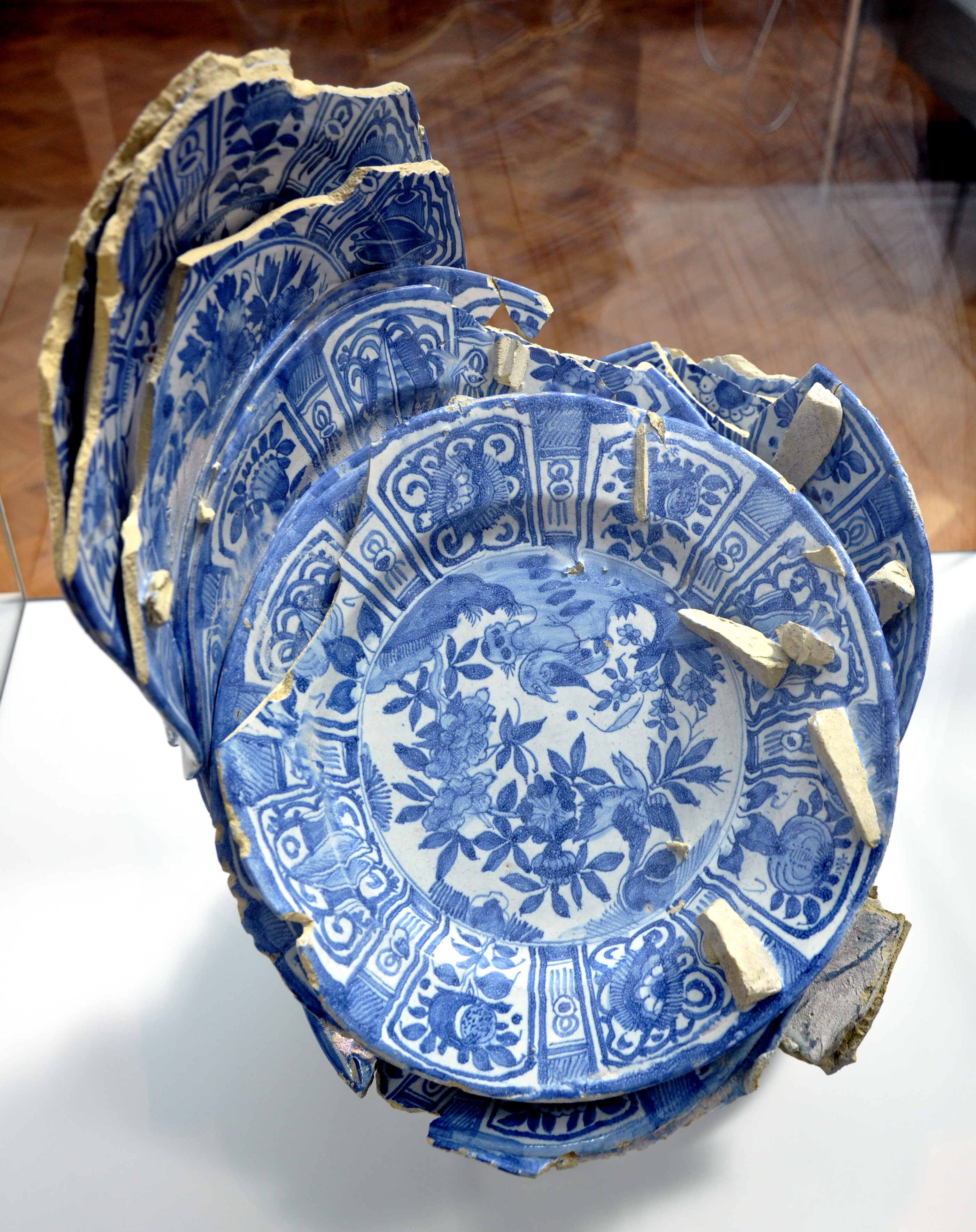 Kiln waster, Delft, 17th century, Victoria and Albert Museum, London, museum no. C.10-2005 (Link)